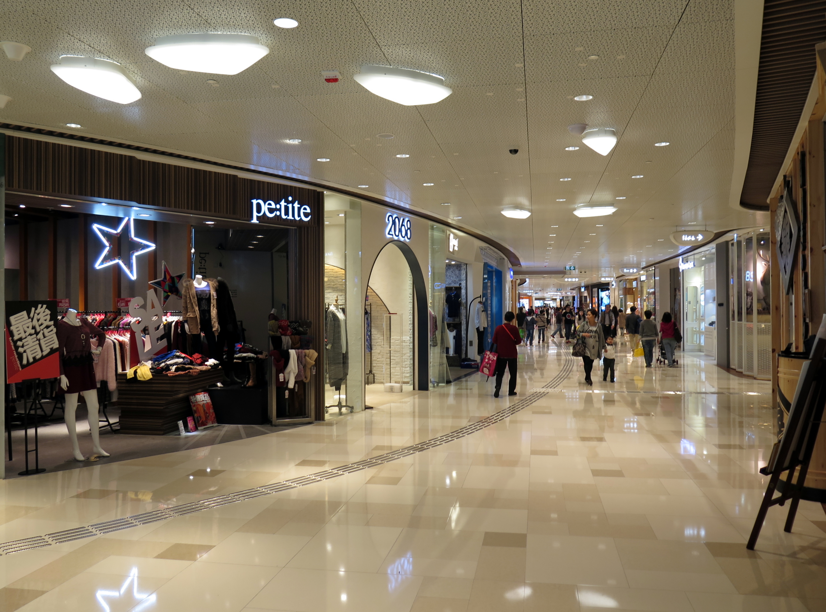 V City north side